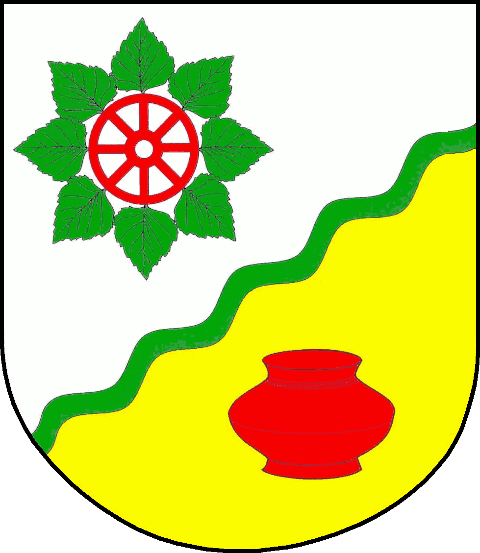 Coat of arms of the municipality Peissen in Schleswig-Holstein, Germany.